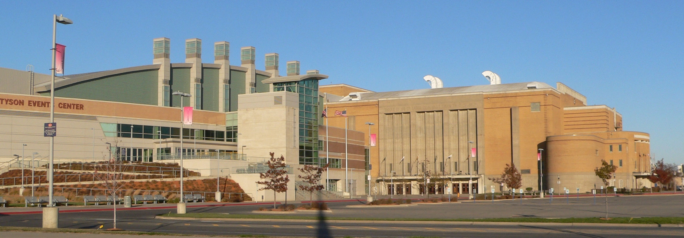 Tyson Events Center in Sioux City, Iowa; seen from the southwest. At left is the recent arena; at right is the 1950 Sioux City Municipal Auditorium.